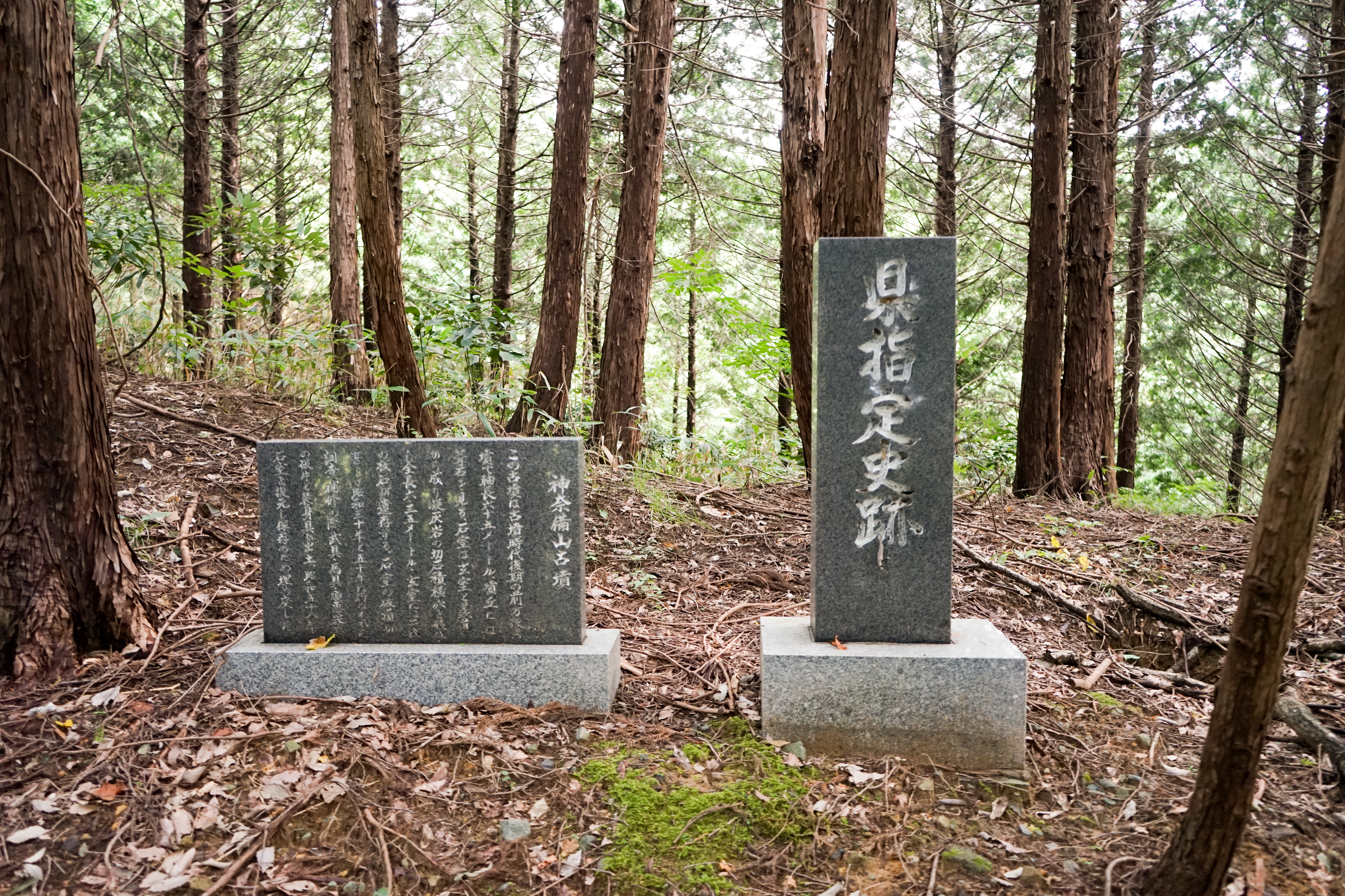 Monuments on Kannabiyama Kofun (VI c.), Awara-shi, Fukui Pref., Japan